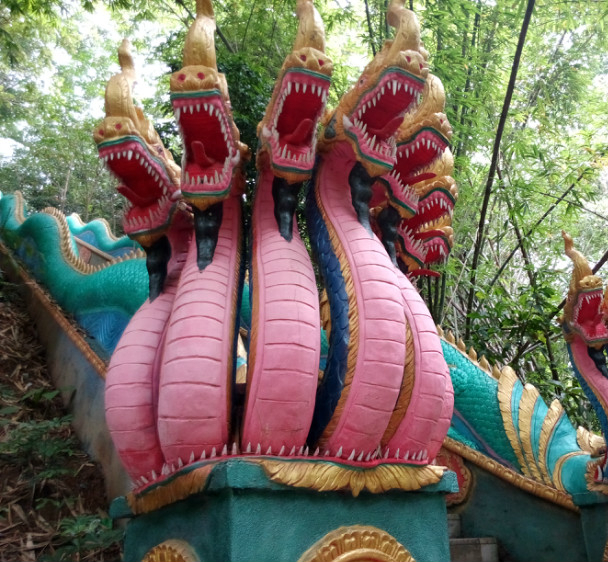 Ladder with the statue of Naga, in Xishuang Banna (Sipsong Panna) of Yunnan, beside the China-Burma border (2015/08/19).